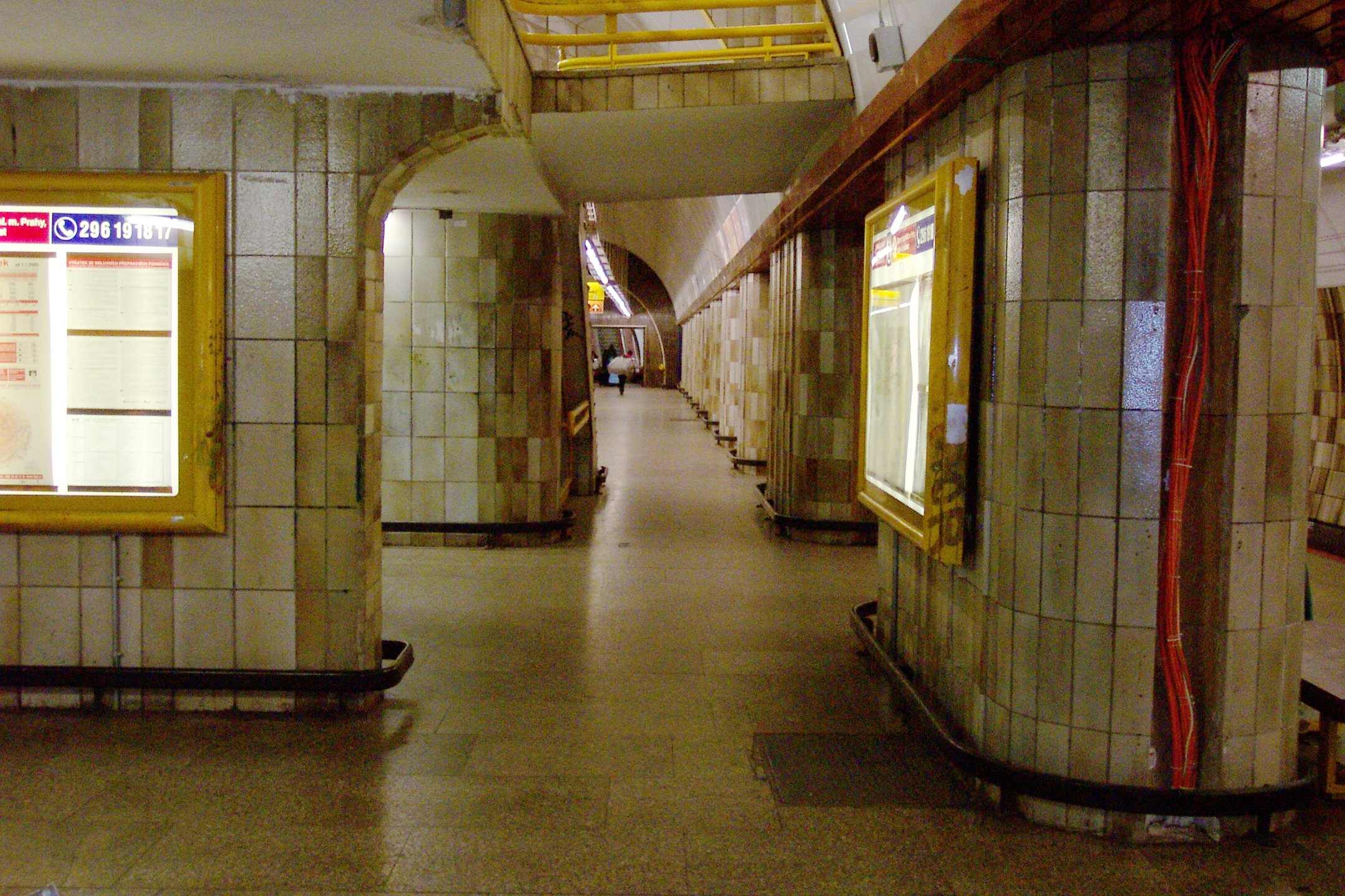 Metro station Florenc, Prague - Stanice metra Florenc v Praze. Image enhanced on 12th April 2007 - obrázek upraven 12. dubna 2007